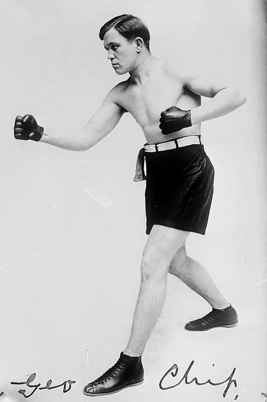 Photo shows middleweight boxer George Chip who was born George Chipulonis. (original summary)